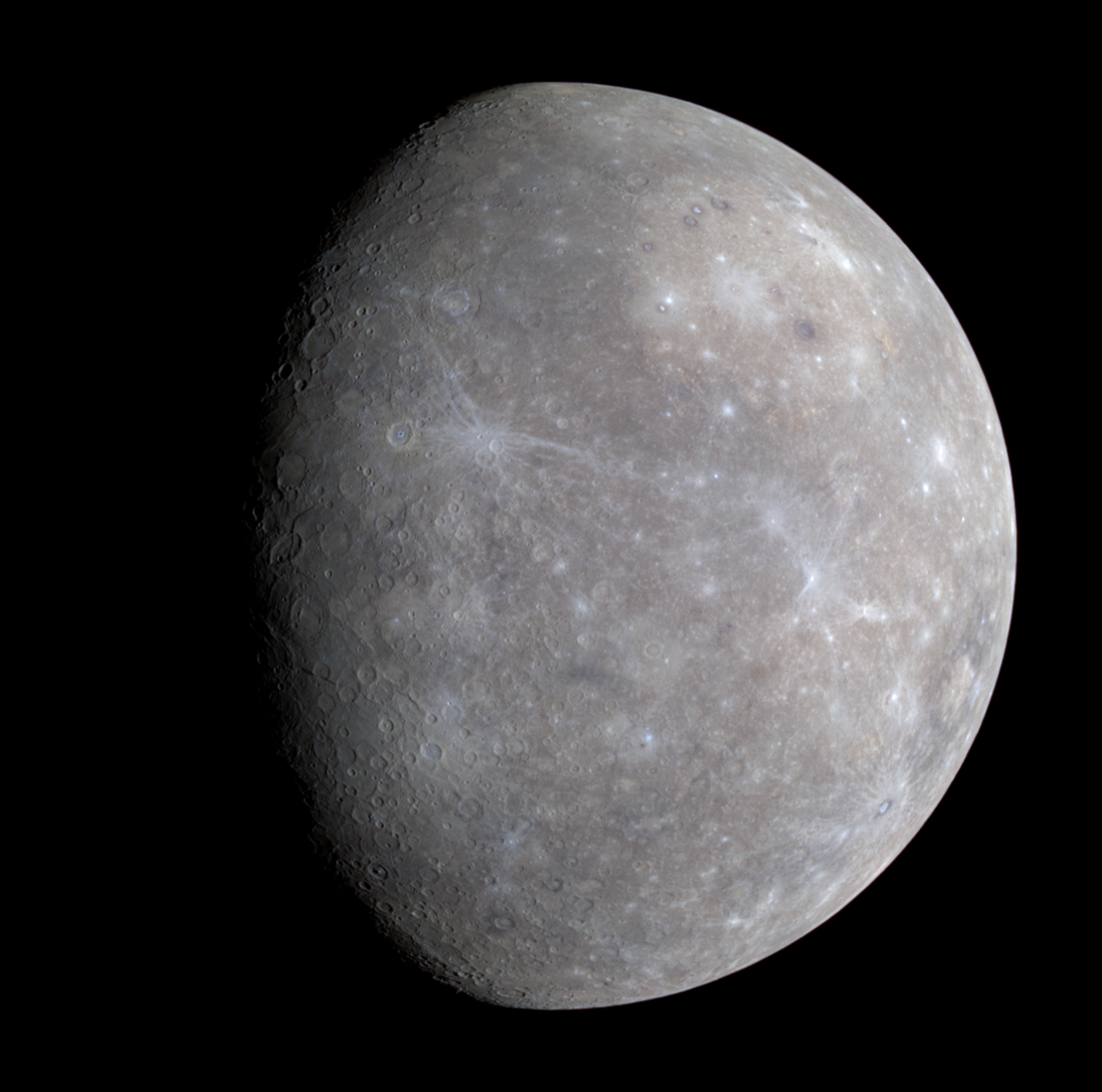 Full-color image of Mercury from first MESSENGER flyby.